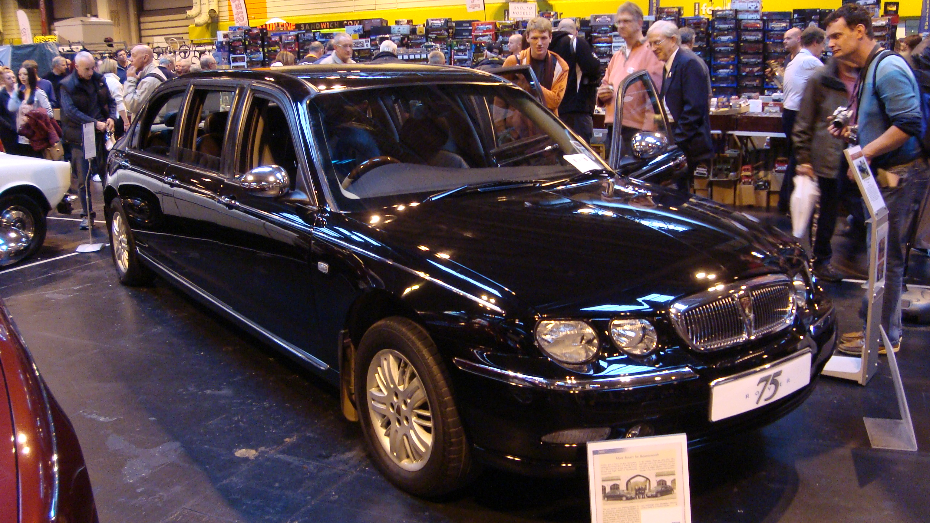 One of 13 stretched 75's built. The owner of this car is an undertaker and this is part of his fleet along with a 75 Hearse. He let me sit in the back which is the first time I'd been in a 75 for about a decade, still very comfortable cars